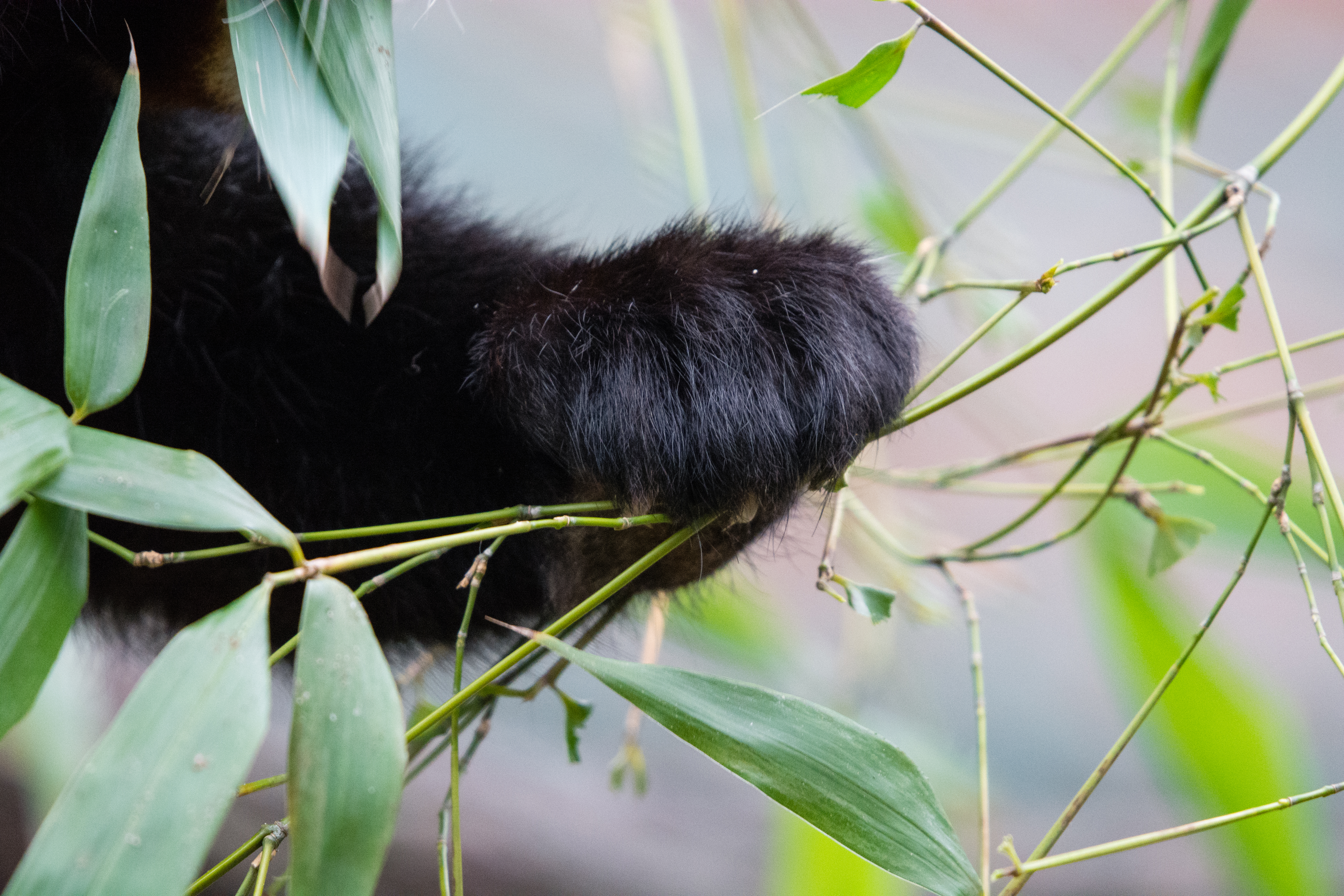 Red Panda